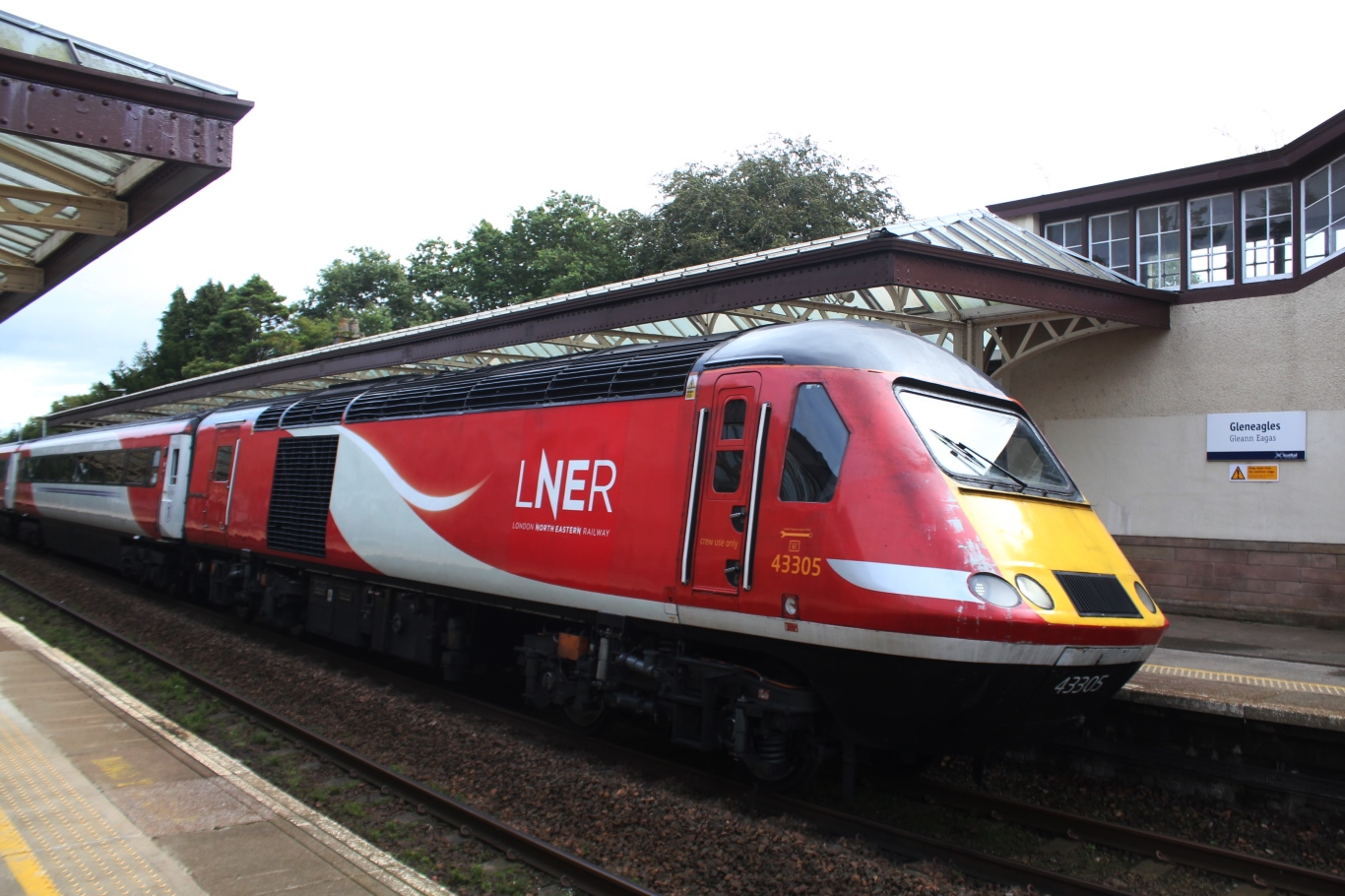 The southbound 'Highland Chieftain' calls at Gleneagles behind power car 43305.